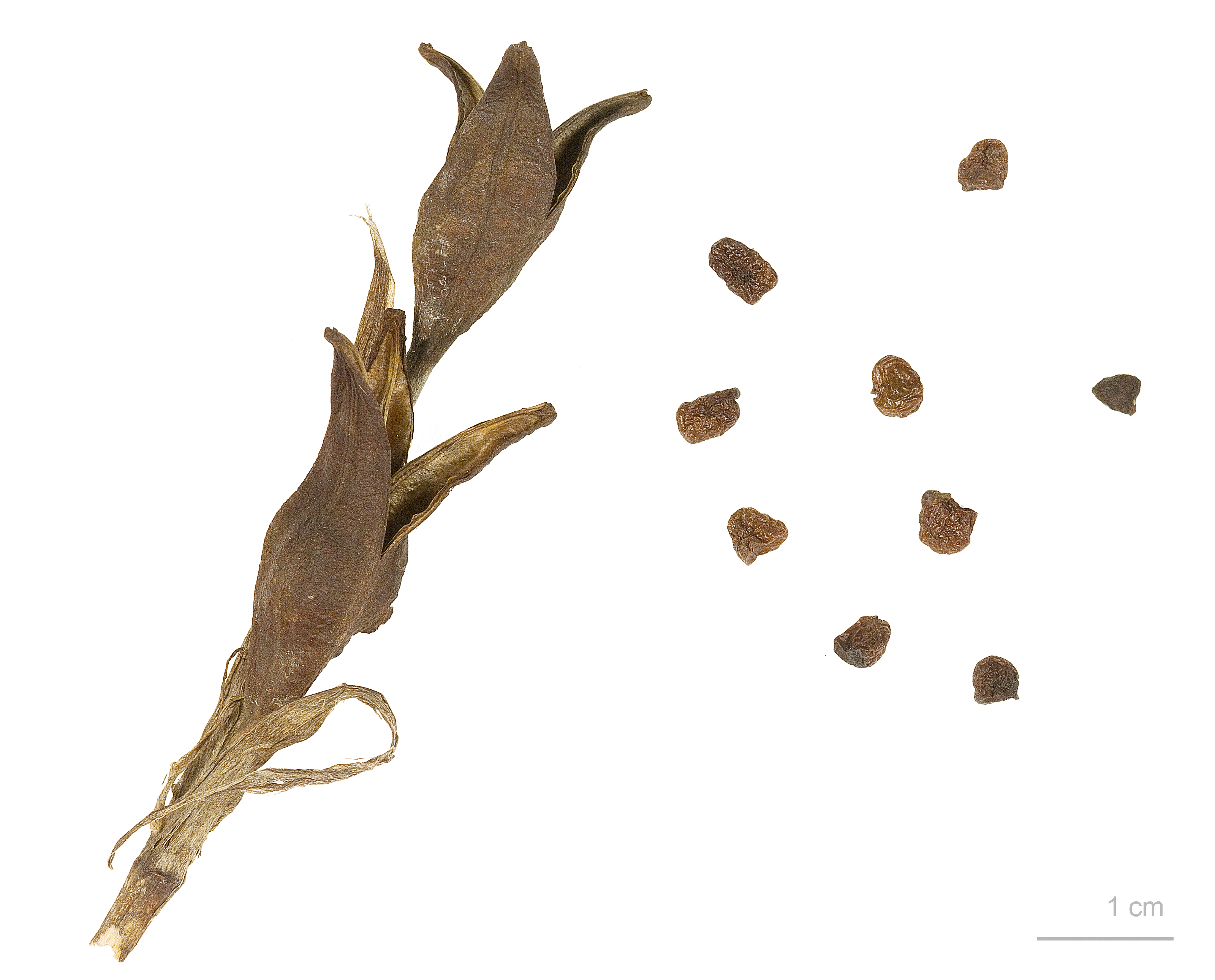 Northern Blue Flag , fruits and seeds